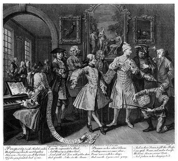 William Hogarth: A Rake's Progress, Plate 2: Surrounded By Artists And Professors, Engraving, 35.5 x 41cm